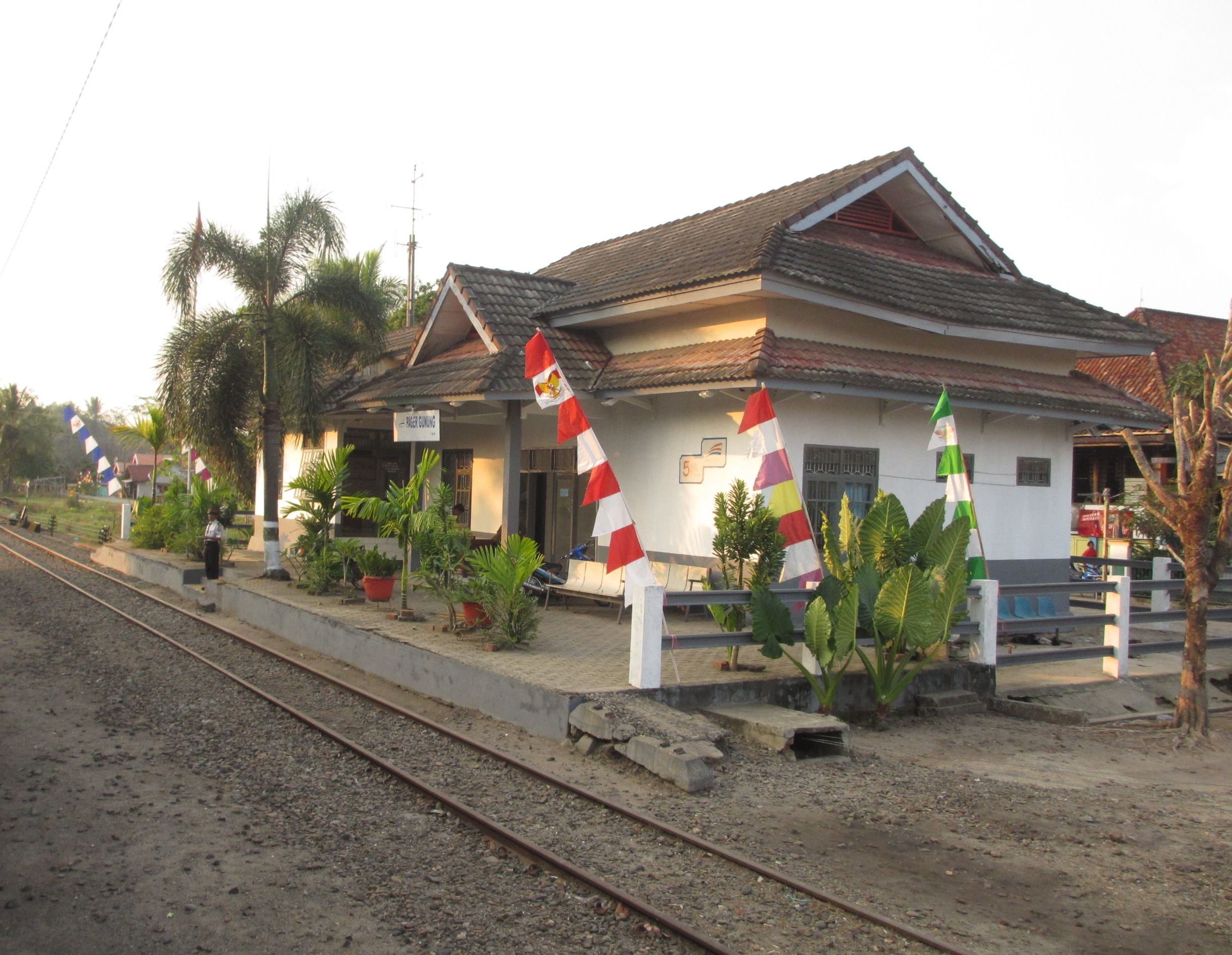 Pagergunung Railway Station.